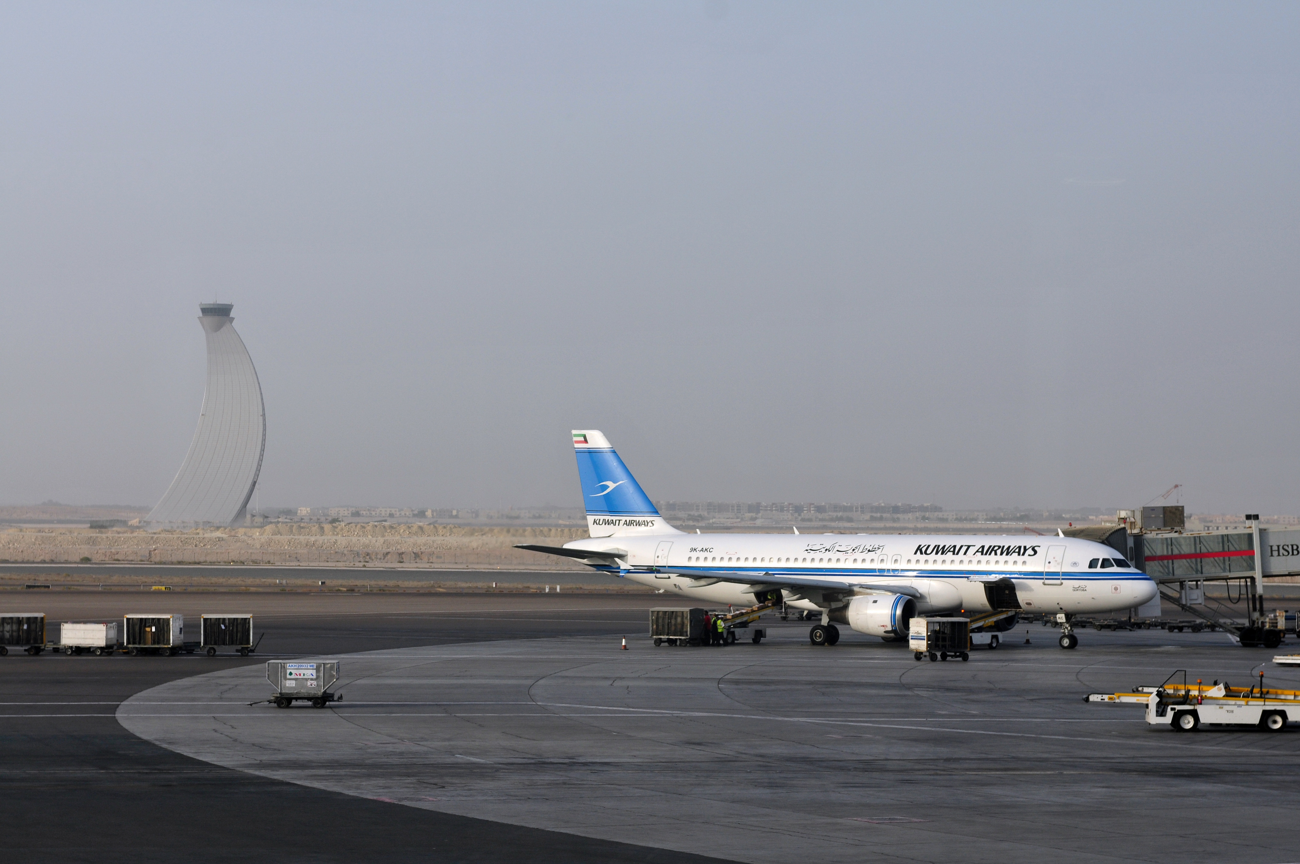 Tower of Airport Abu Dhabi and 9K-AKC Airbus A320-212 of Kuwait Airways